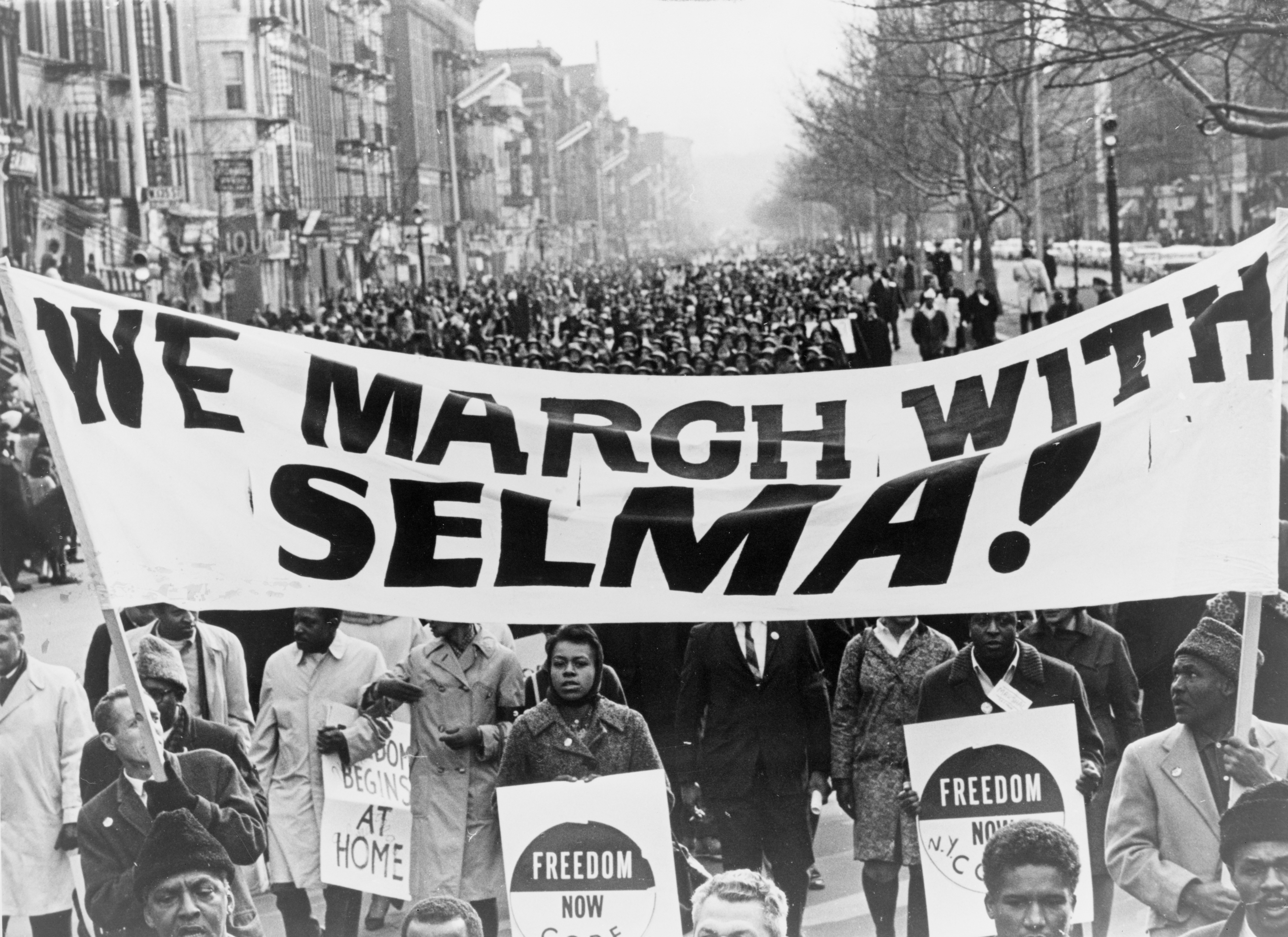 Photograph shows marchers carrying banner "We march with Selma!" on street in Harlem, New York City, New York.